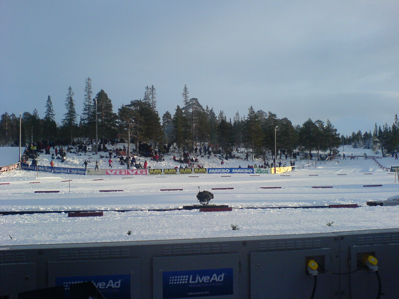 Spectators near the “Finish”-mark in Grova, Meråker Municipality, during the Norwegian Ski Championship there in 2007.